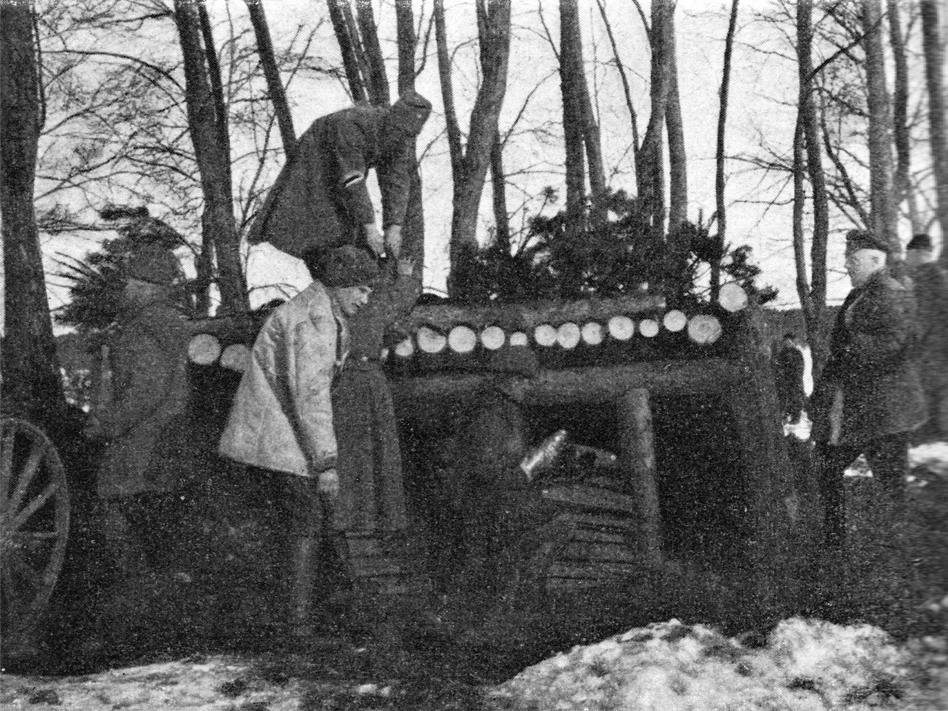 An ammunition shelter of Battery No 3 of the 1st Artillery Regiment near Riigiküla. Commander of the battery Lieutenant August Rattiste on the right foreground.